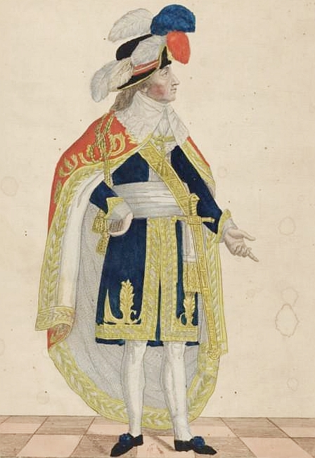 Emmanuel-Joseph Sieyès (1748-1836) in full regalia as a member of the French Executive Directory.